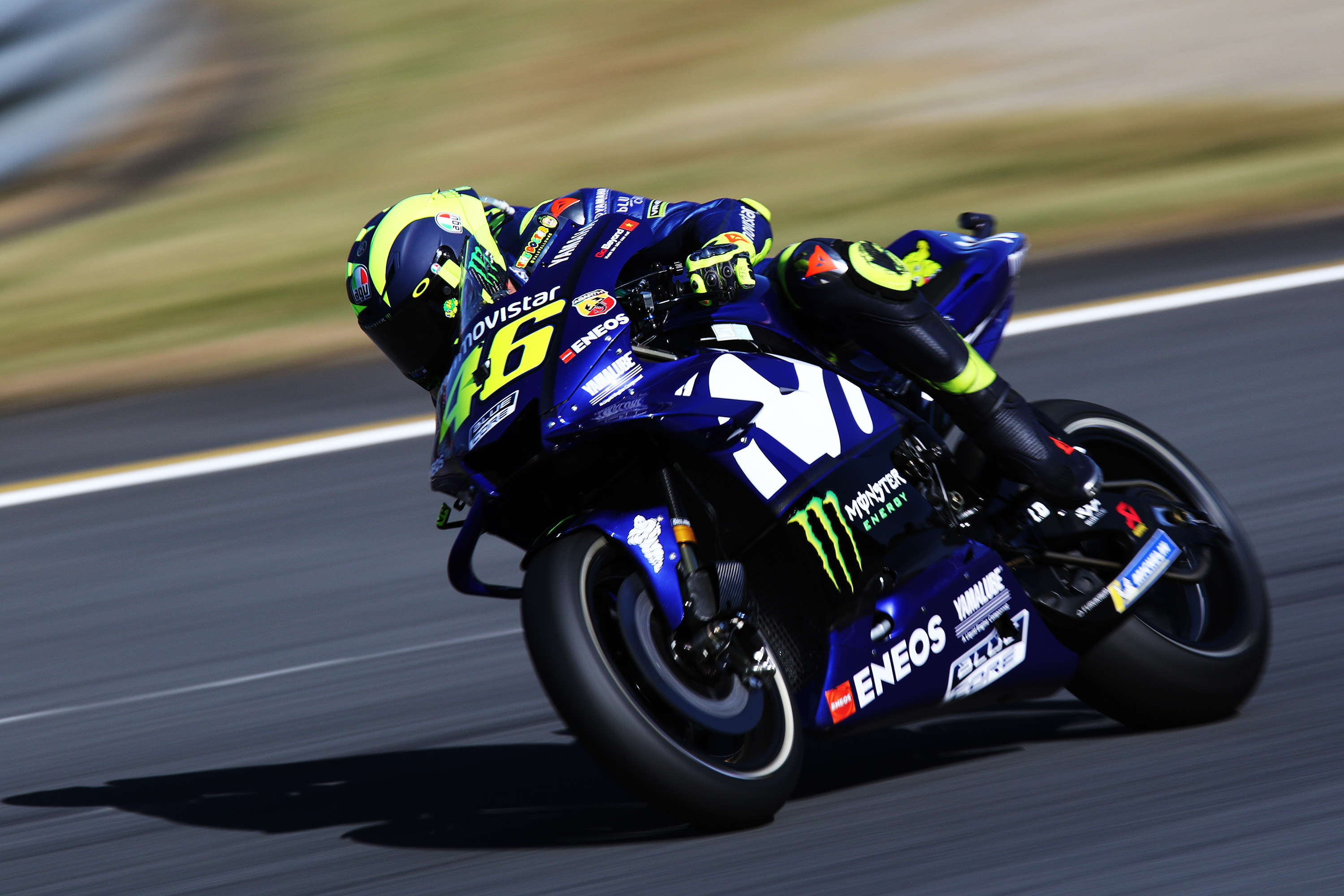 Valentino Rossi driving his Yamaha YZR-M1 on the Japanese Twin Ring Motegi circuit during the warm up session in 2018. 2018.10.21 MotoGP Rd.16 Yamaha YZR-M1 - Movistar Yamaha MotoGP Motul Grand Prix of Japan Twin Ring MOTEGI MotoGP Class Warm Up No. 46 バレンティーノ ロッシ